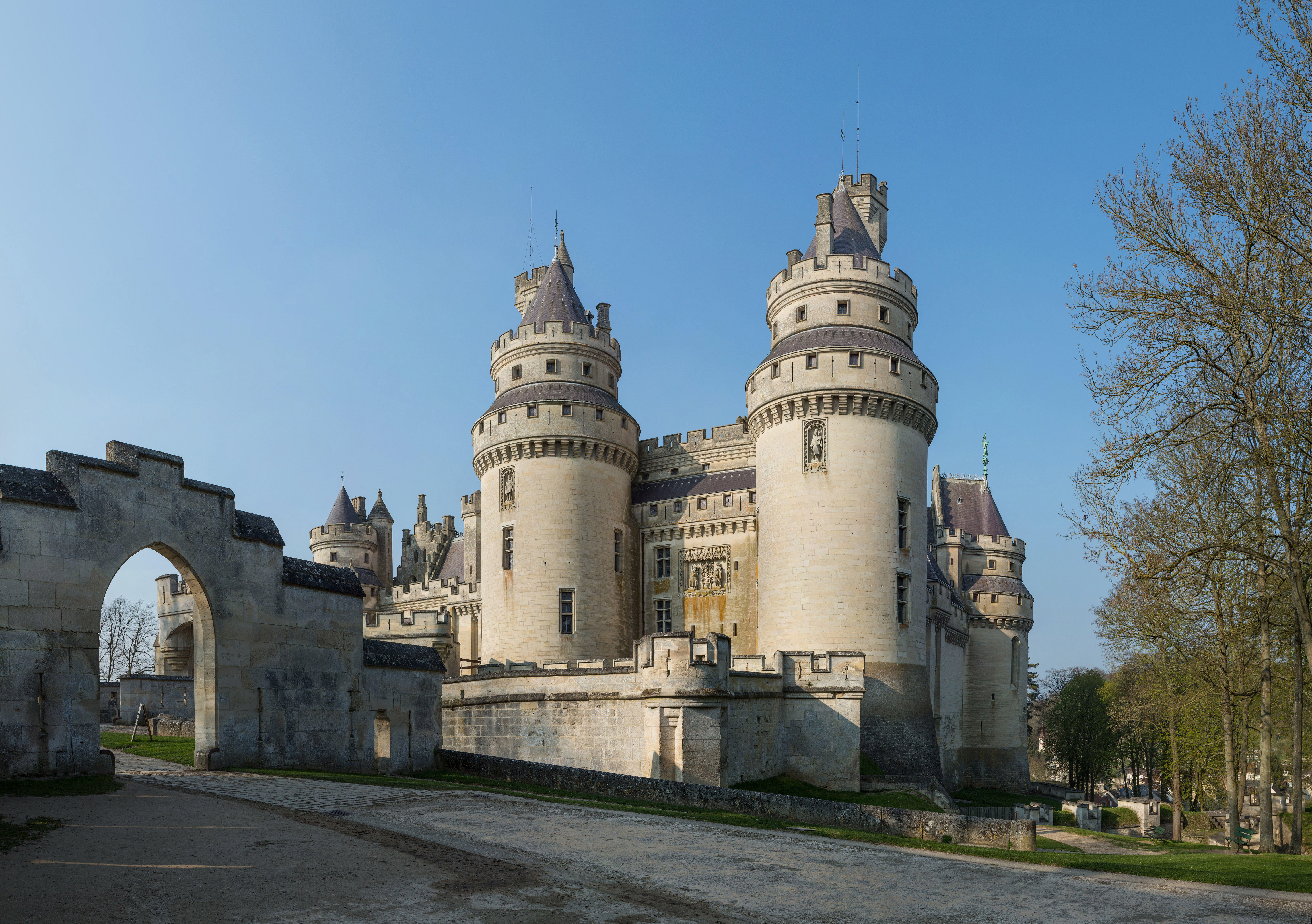 Château de Pierrefonds, or Pierrefonds Castle, as viewed from the exterior courtyard.